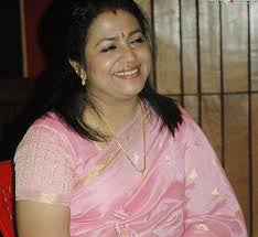 IMAGE